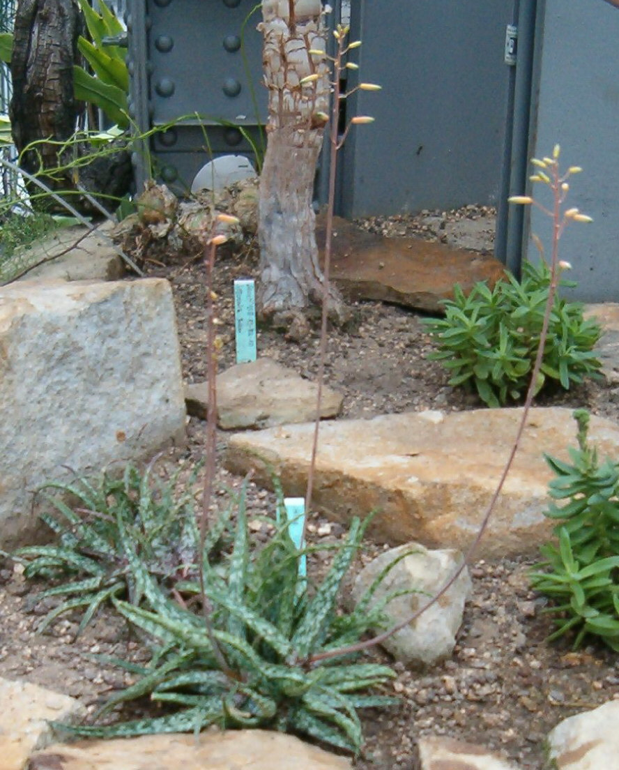 Location: Botanical Gardens Berlin Dahlem Xerophyt